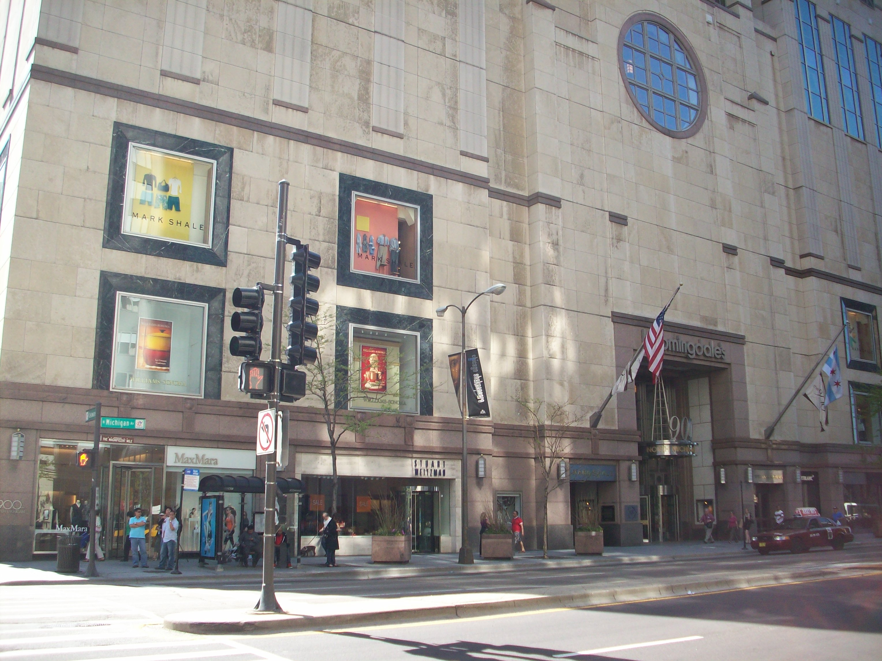 900 N Michigan Ave Chicago, IL